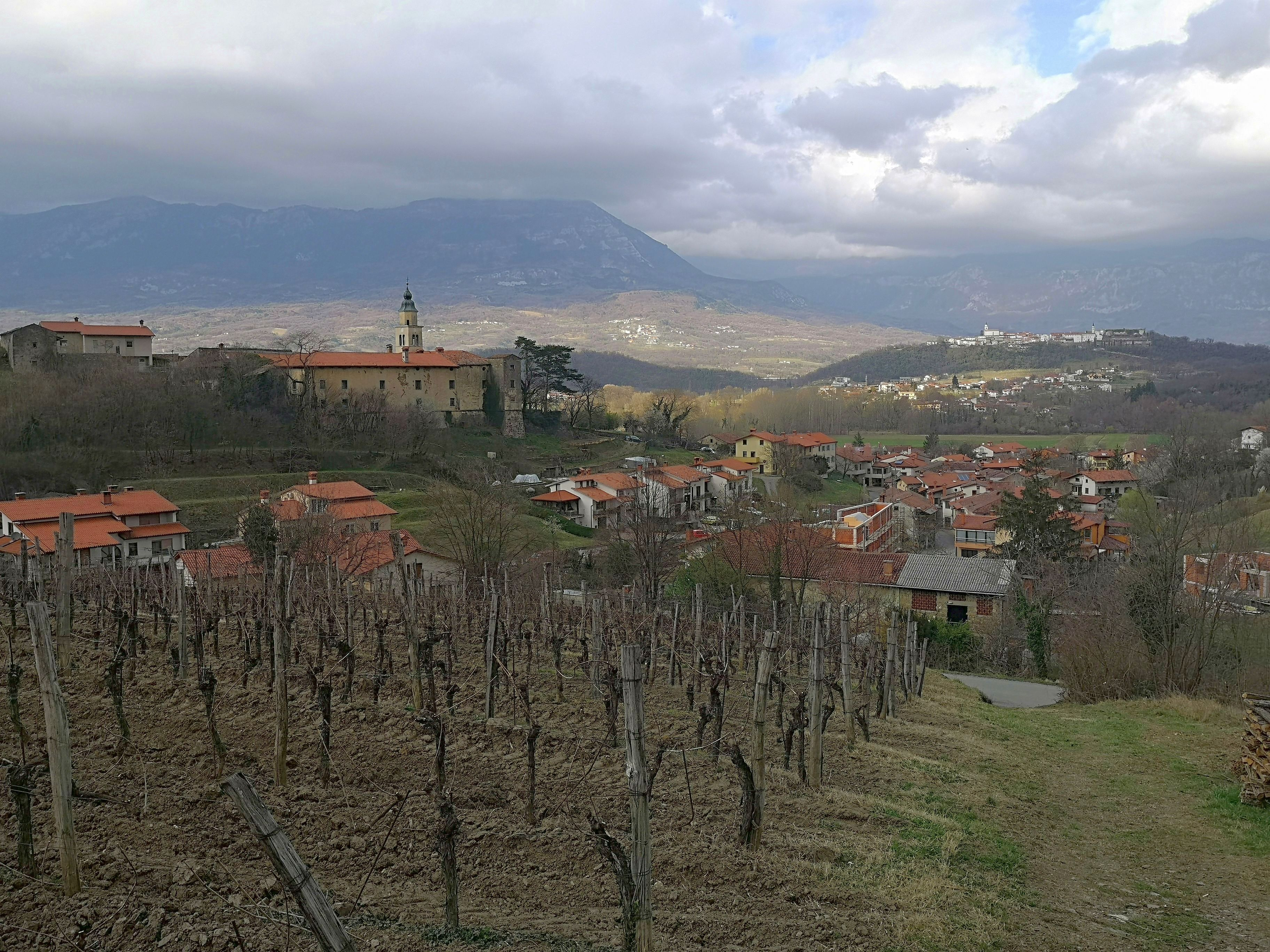 Velike Žablje, view of the village from the road to Komen.